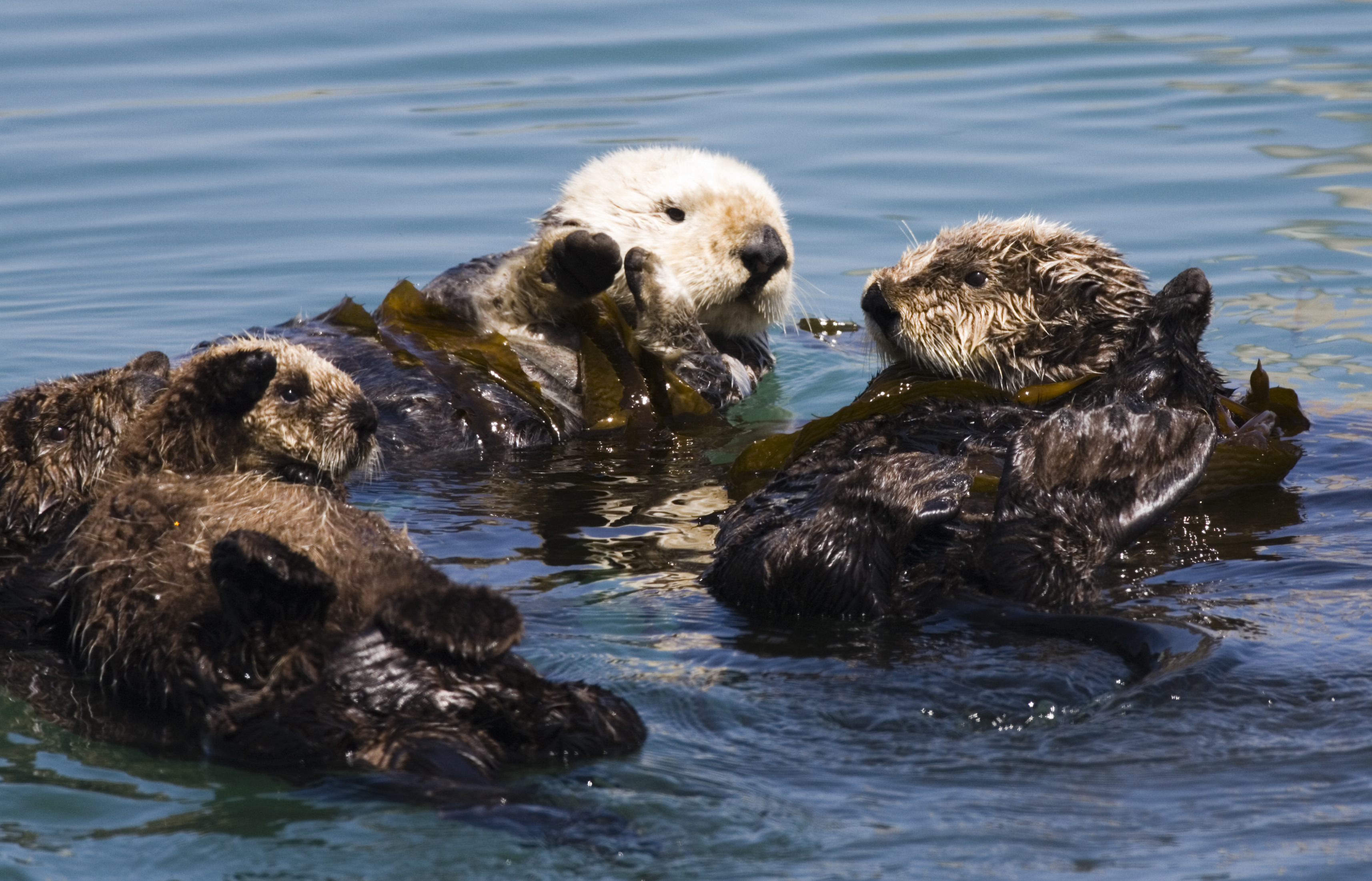 Sea Otter Mom with Two Pups, Morro Bay, CA 16april2007. Photo by Mike Baird Canon 5D 600mm IS on tripod. You have to look closely (see the full-res version at ) - the Mom on the left is harboring two pups - the eye of the second is at the far left of the image... the otter to the right is presumed to be an adult. Thanks to Joyce Cory for the observation. Additional note from user:Clayoquot: If the two pups at lower left are indeed twins, this would be extremely rare as mothers can usually only care for one infant. Orphaned pups in aquariums need round-the-clock feeding, grooming, and attention from exhausted human staff! It is quite possible that the two small pups are unrelated, as unrelated pups often play together. The pup on the right looks like a juvenile rather than a full-grown adult.